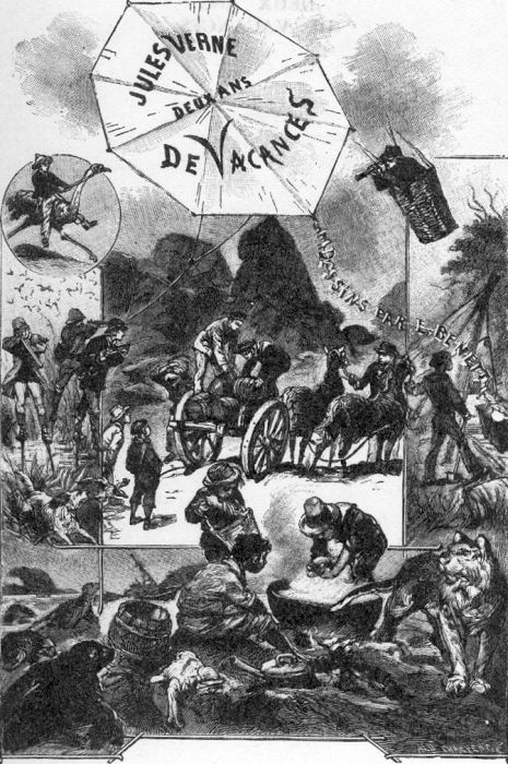 An illustration from Jules Verne's novel "Two Years' Vacation" (1886-87) drawn by Léon Benett.